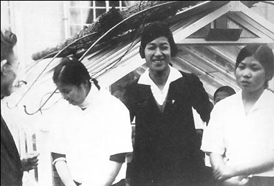 Kinue Hitomi